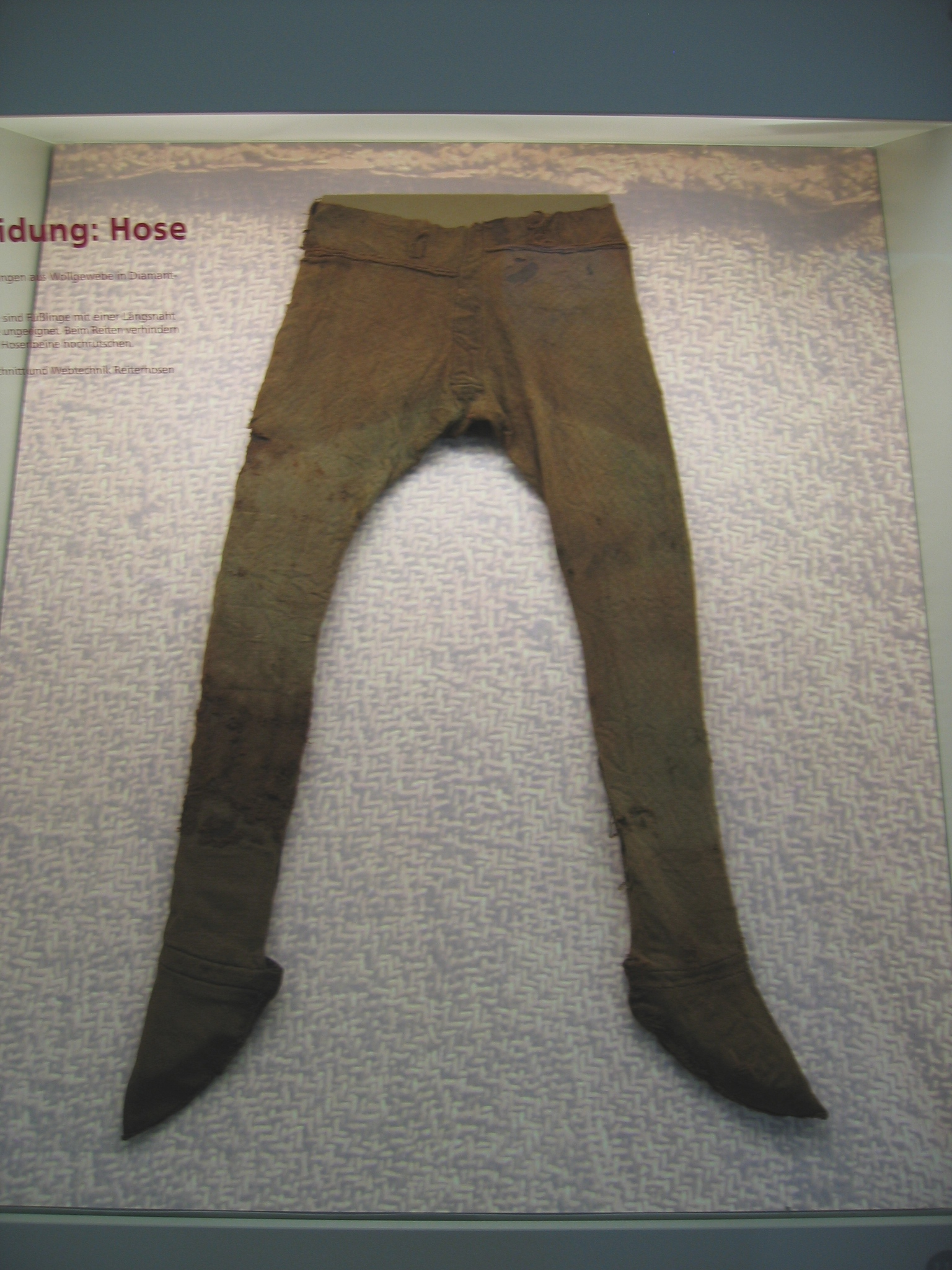 A pair of trousers from the Thorsberg Bog in Schleswig-Holstein, Germany, approx. mid 4th century.